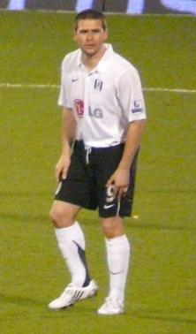 Northern Irish football (soccer) player David Healy